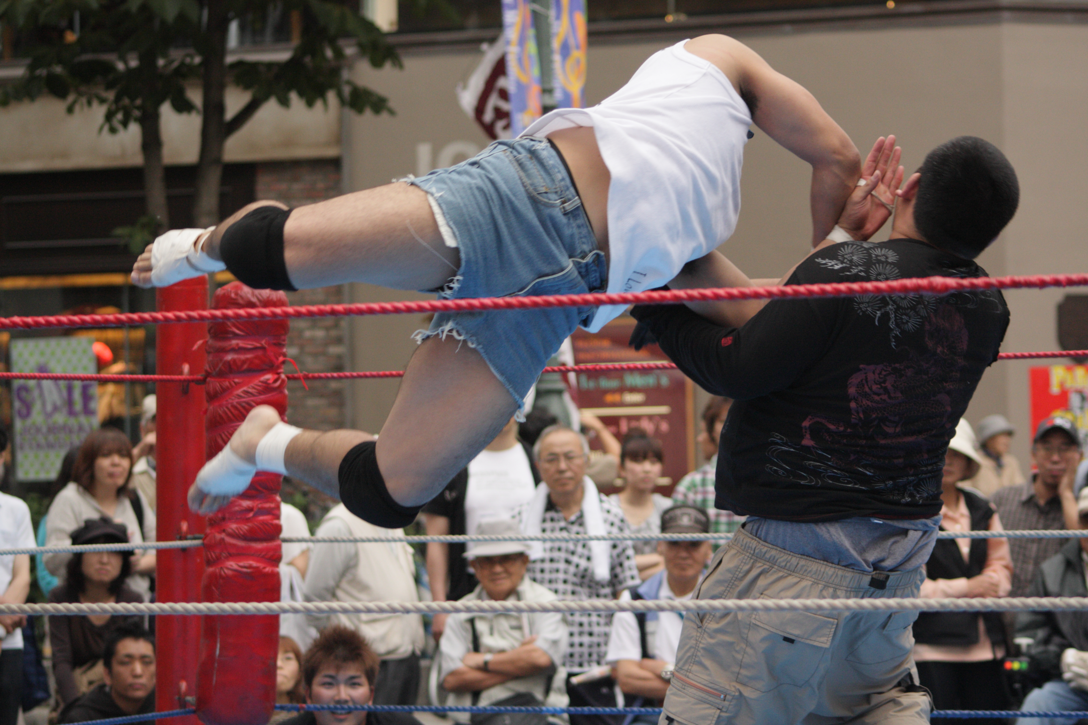 Flying Cross Chop by EWA wrestler (amateur pro-wrestling)